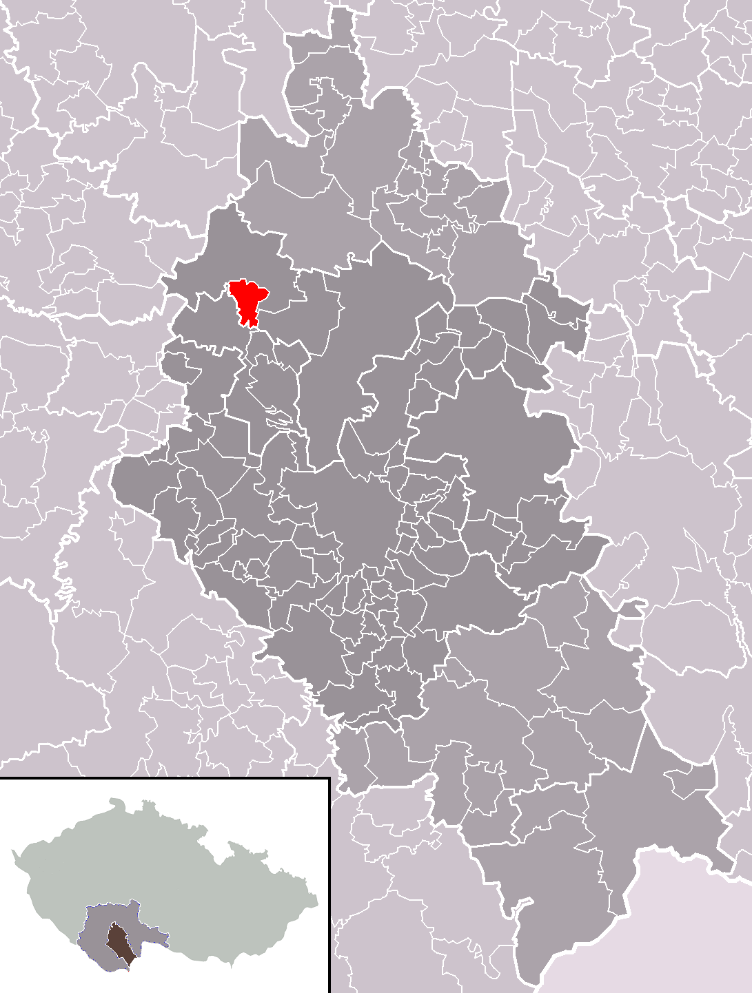 Location of Nákří municipality within České Budějovice District and administrative area of České Budějovice as a Municipality with Extended Competence.